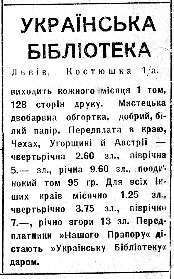 Реклама видання «Українська Бібліотека»